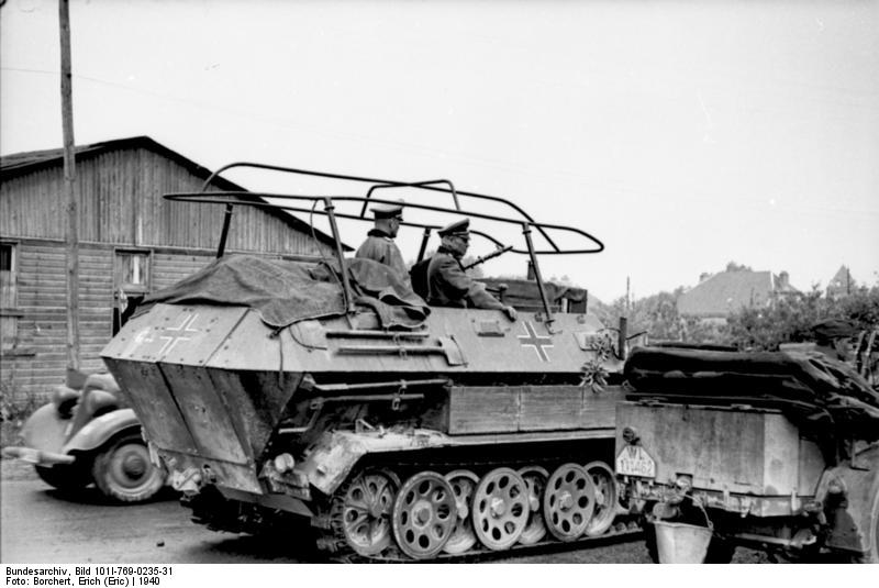 SdKfz.251/3 ausf. A armoured command vehicle